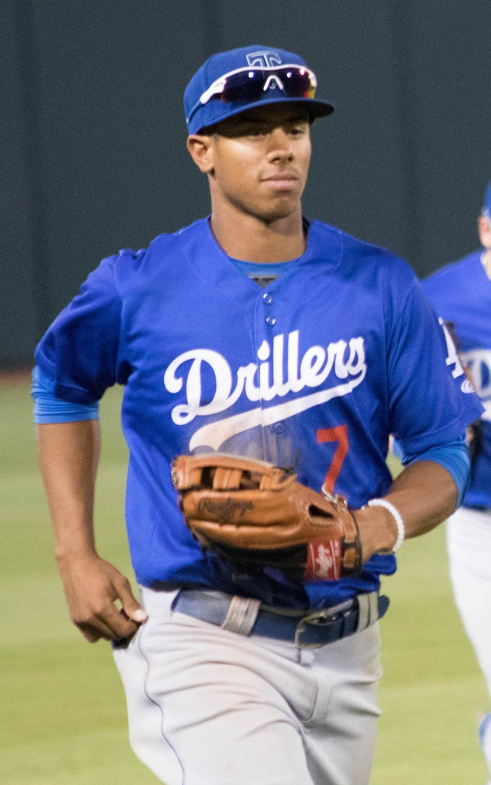 Jacob Scavuzzo with the Tulsa Drillers